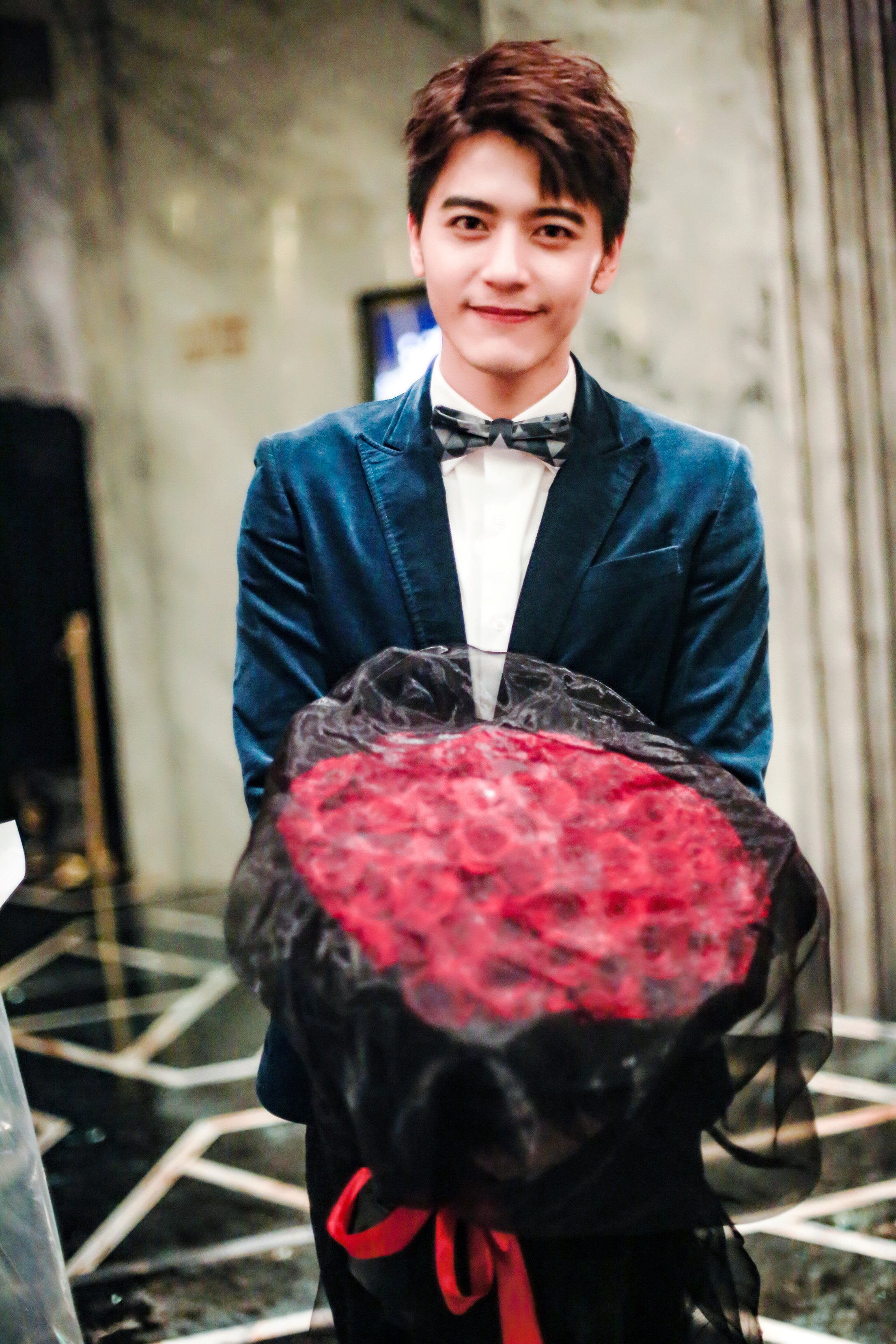 Chung-Lin Lee